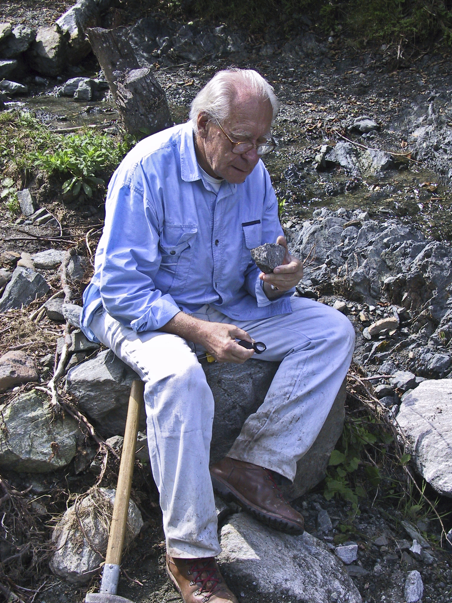 Professor Stevan Karamata, Serbian geologist and academician Српски (ћирилица): Професор Стеван Карамата, геолог и академик САНУ